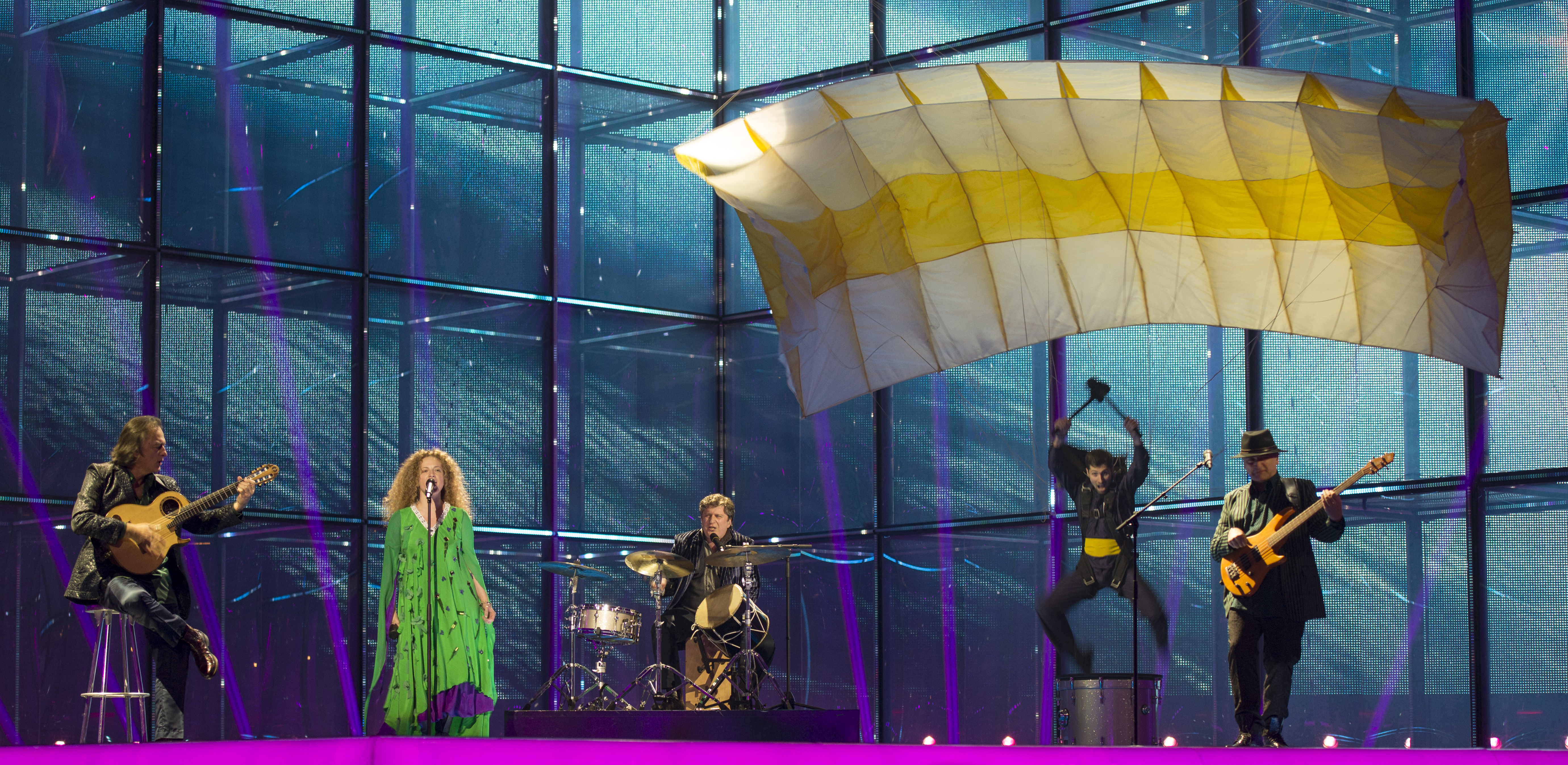 The Shin and Mariko Ebralidze representing Georgia with the song "Three Minutes to Earth" during the first dress rehearsal of the second semi final of the Eurovision Song Contest 2014 Copenhagen. (Help translate this text)